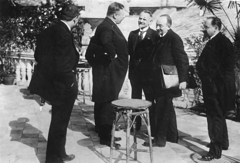 Characters who participated in the Treaty of Rapallo of 1922, which sanctioned the peace treaty between Germany and the Soviet Union. In the photo: Joseph Wirth, Leonid Krasin, Georgy Chicherin and Adolf Joffe.